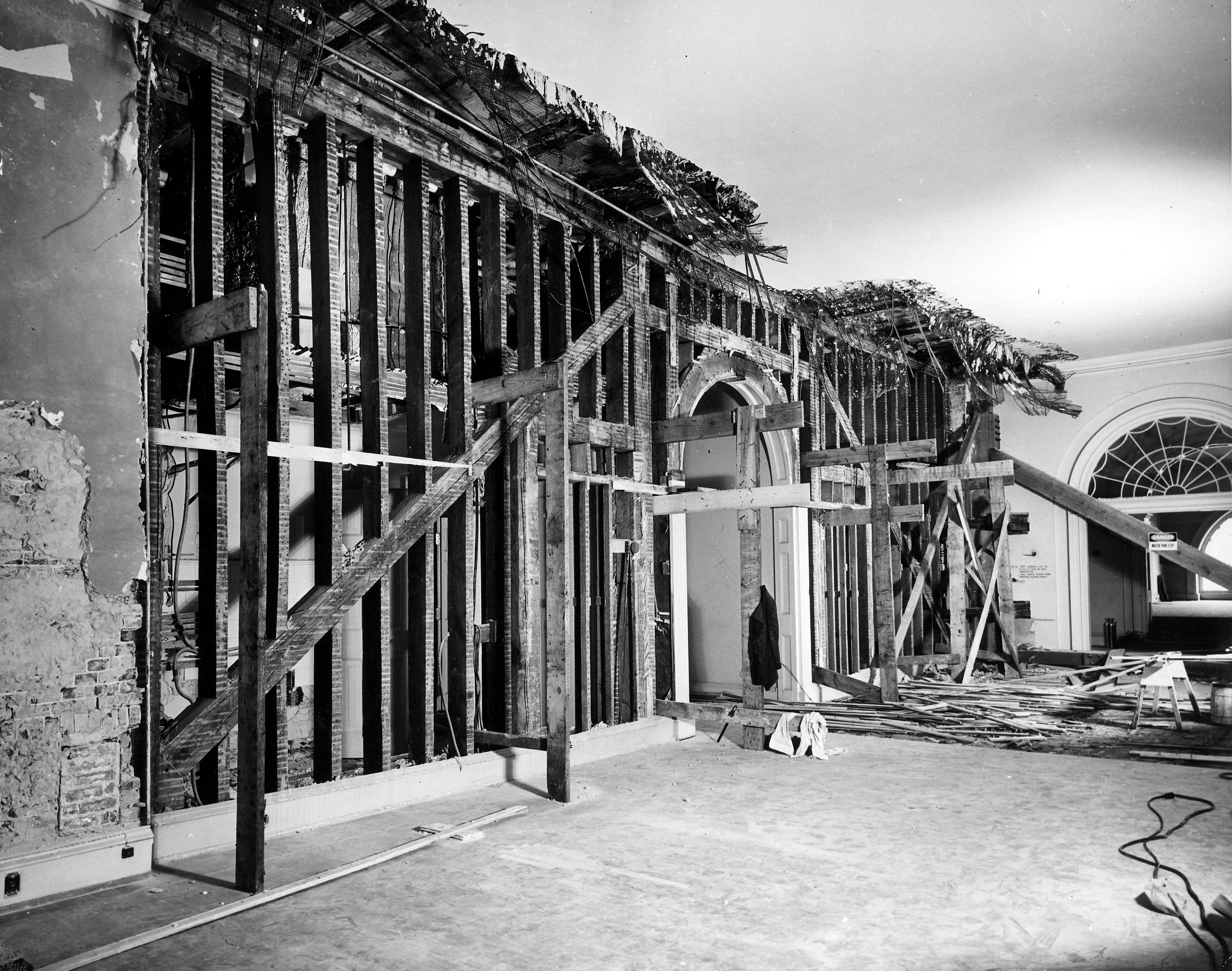 General notes: View showing timber construction of the White House, dating from the restoration of the White House following the destruction by British forces in August, 1814, of the north central corridor, second floor.